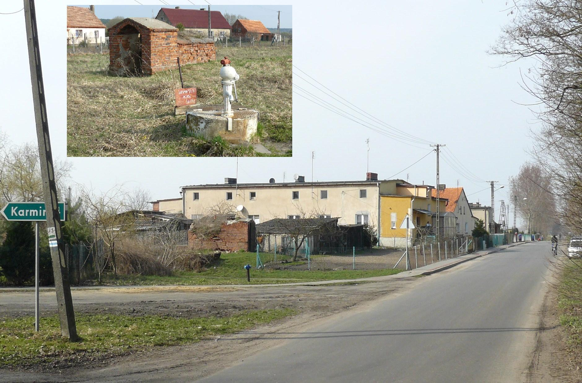 Jezierzyce, POL.